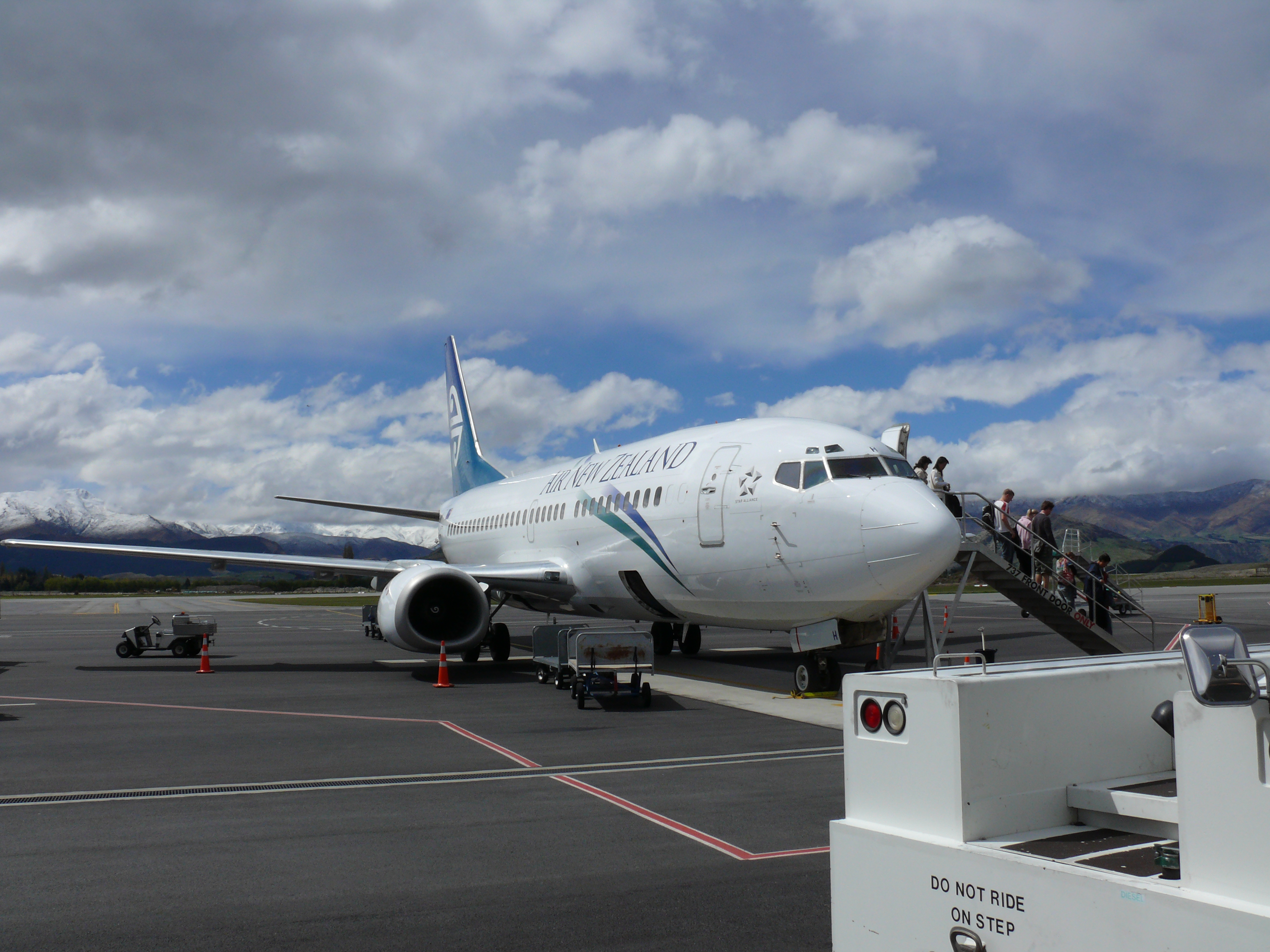 Airport Queenstown (NZ) airplane parking plate. Plane is a Boeing 737-300.